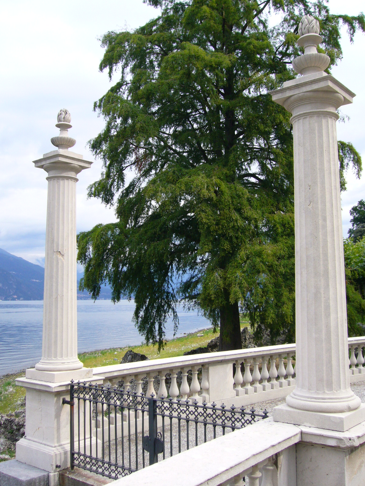 Villa Melzi in Bellagio, Italy. Picture taken by Susanne Acht, August 13, 2006.